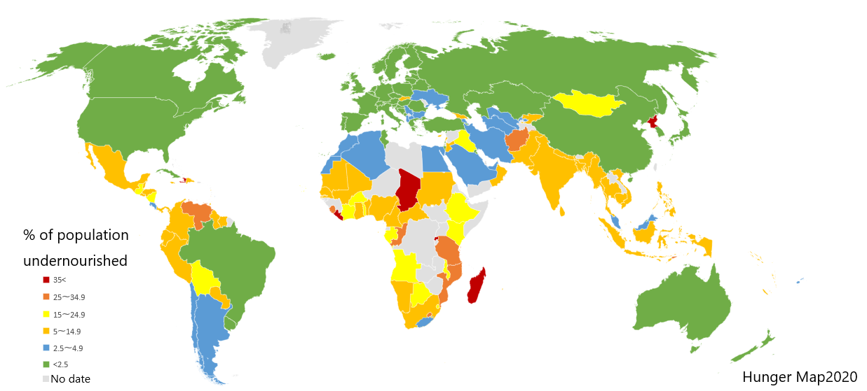 List of countries by percentage of population suffering from undernourishment. Made by User:Lobizón, using Wikipedia's "map of the world" template. The map has been updated (on 2016-04-16) according to the "Hunger Map 2013" from the United Nations World Food Programme. Sources: United Nations World Food Programme's interactive "hunger map": Hunger Map 2013